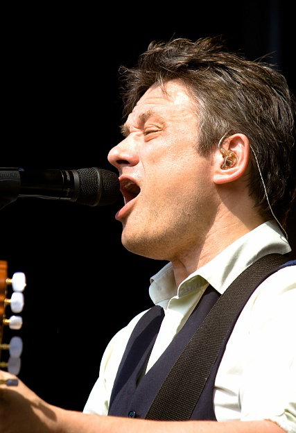 Bart Peeters in Boom, Belgium